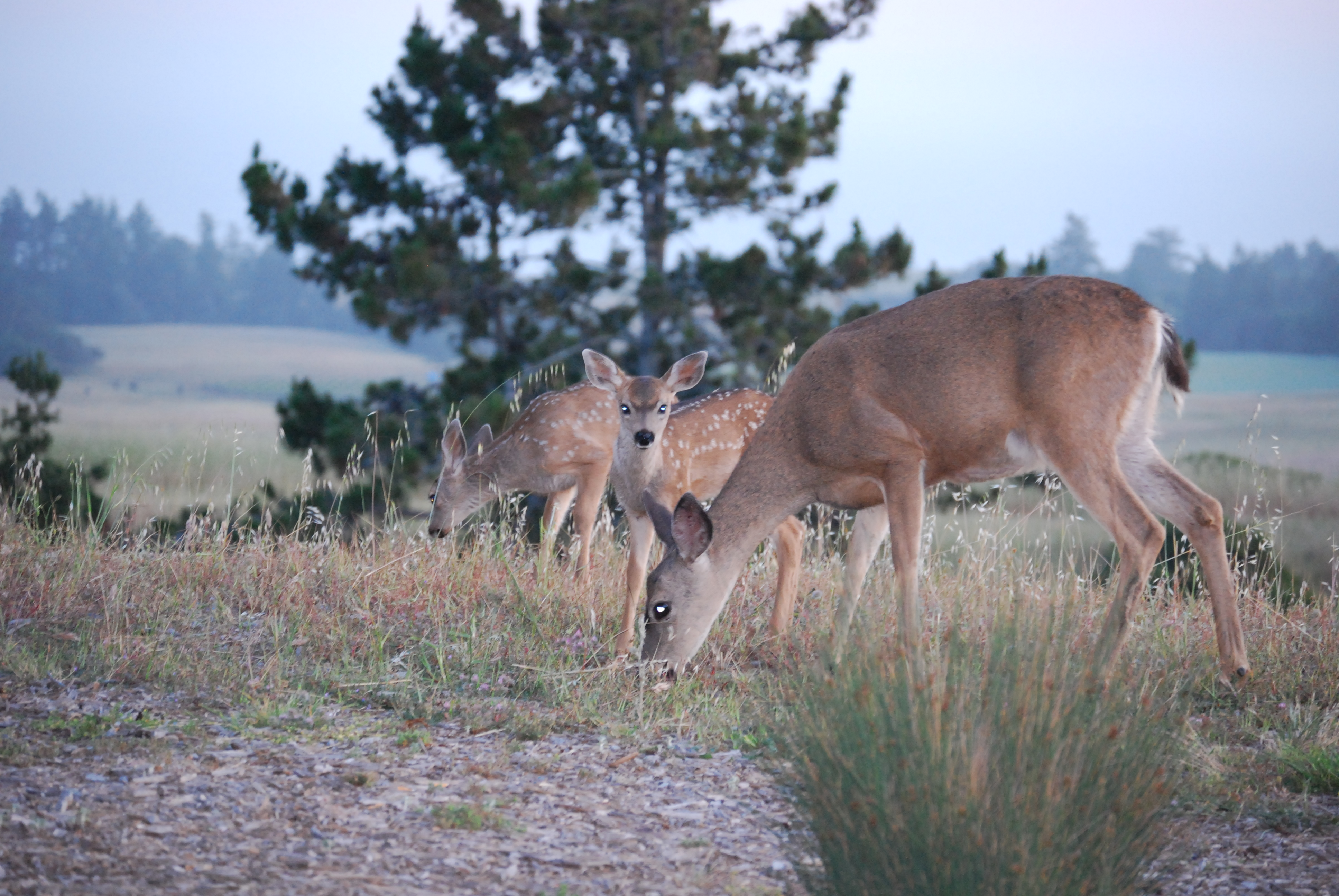 Black tail deer and 2 fawn